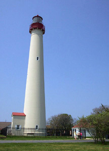 Cape May Light at the tip of Cape May, New Jersey, USA in 2004.